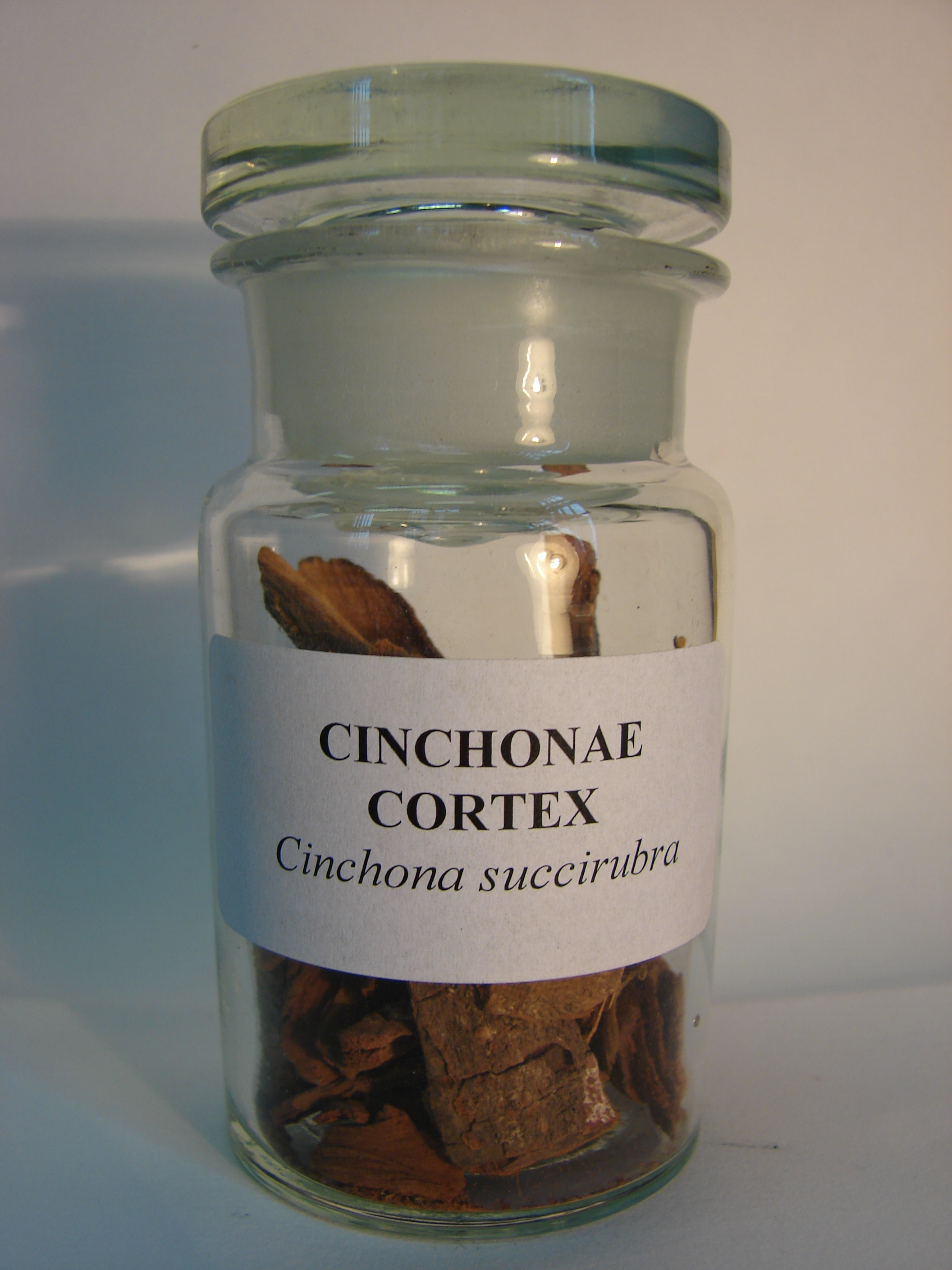 Cinchonae cortex, Cinchona succirubra